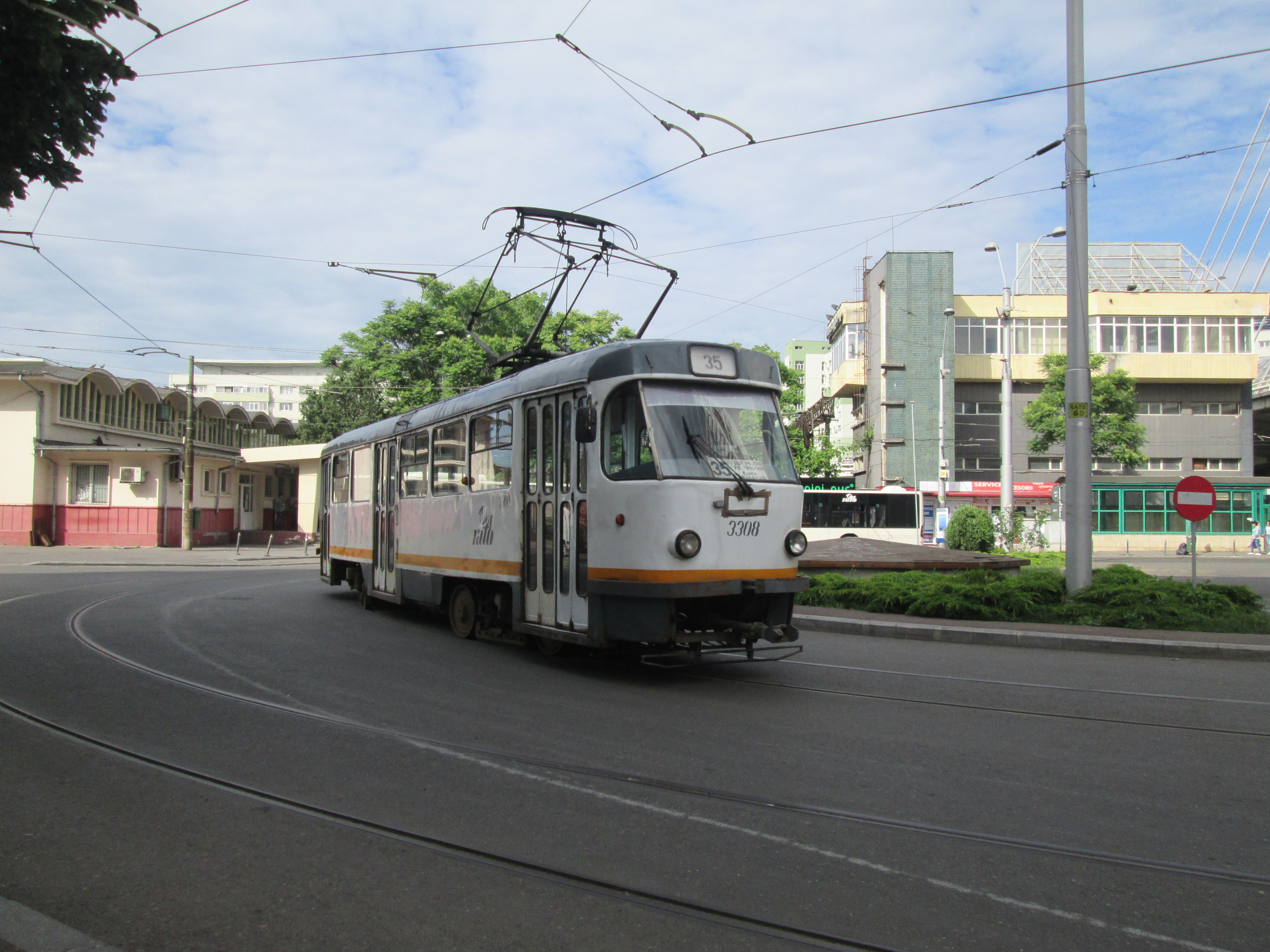 RATB Tatra T4R type tram on line 35 at the Basarab end of line